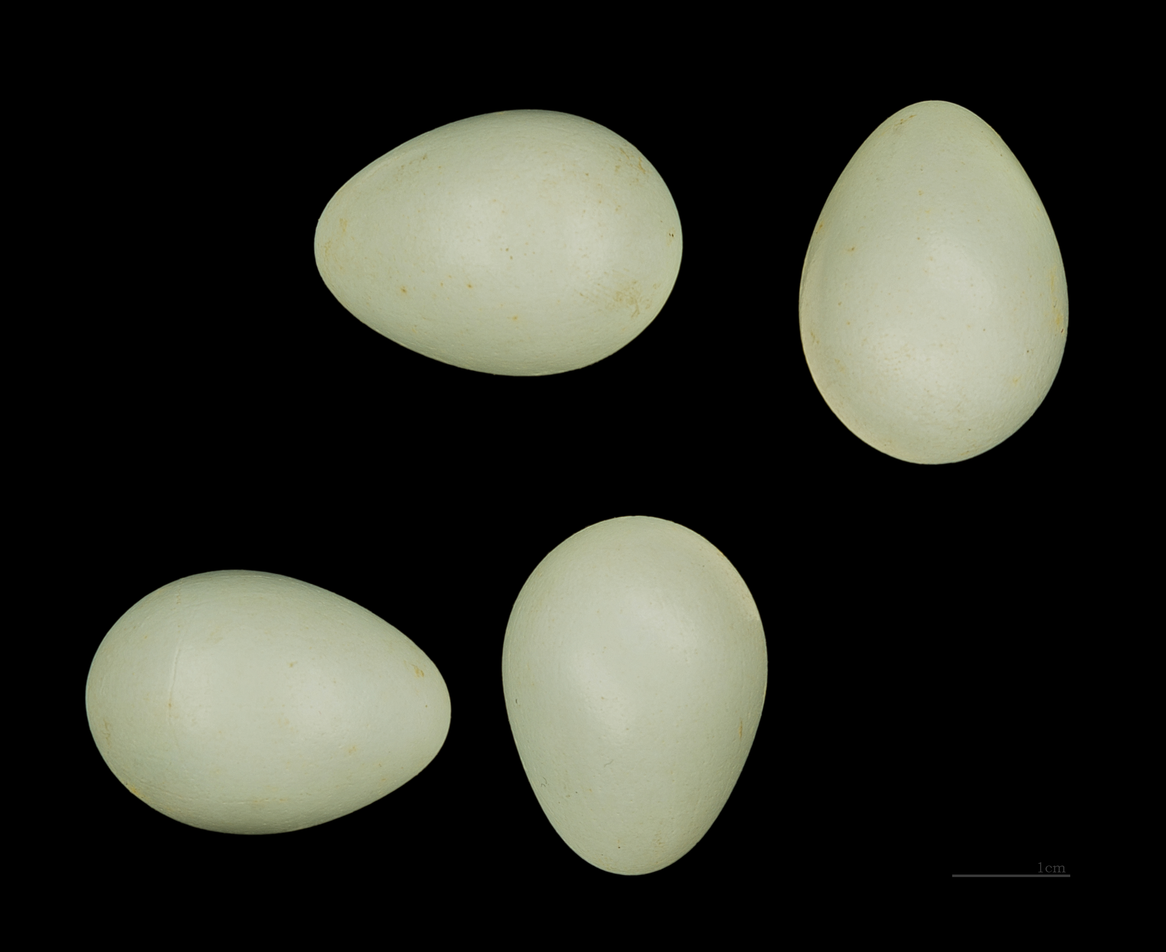 Egg of Rosy Starling. Collection of Jacques Perrin de Brichambaut.